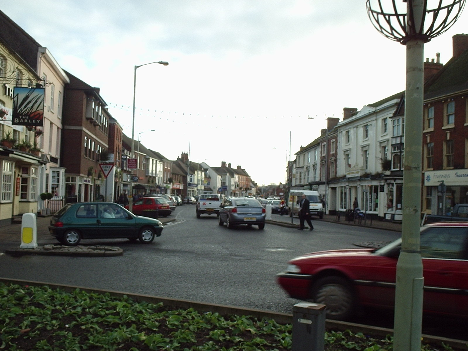 newport shropshire high street